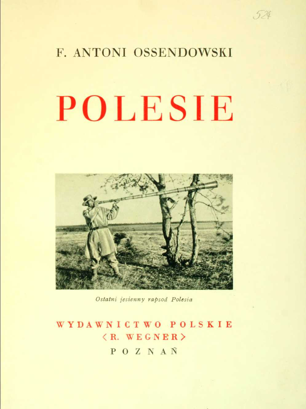 Title page of Ferdynard Ossendowski "Polesie", Wydawnictwo Polskie R. Wegner 1934